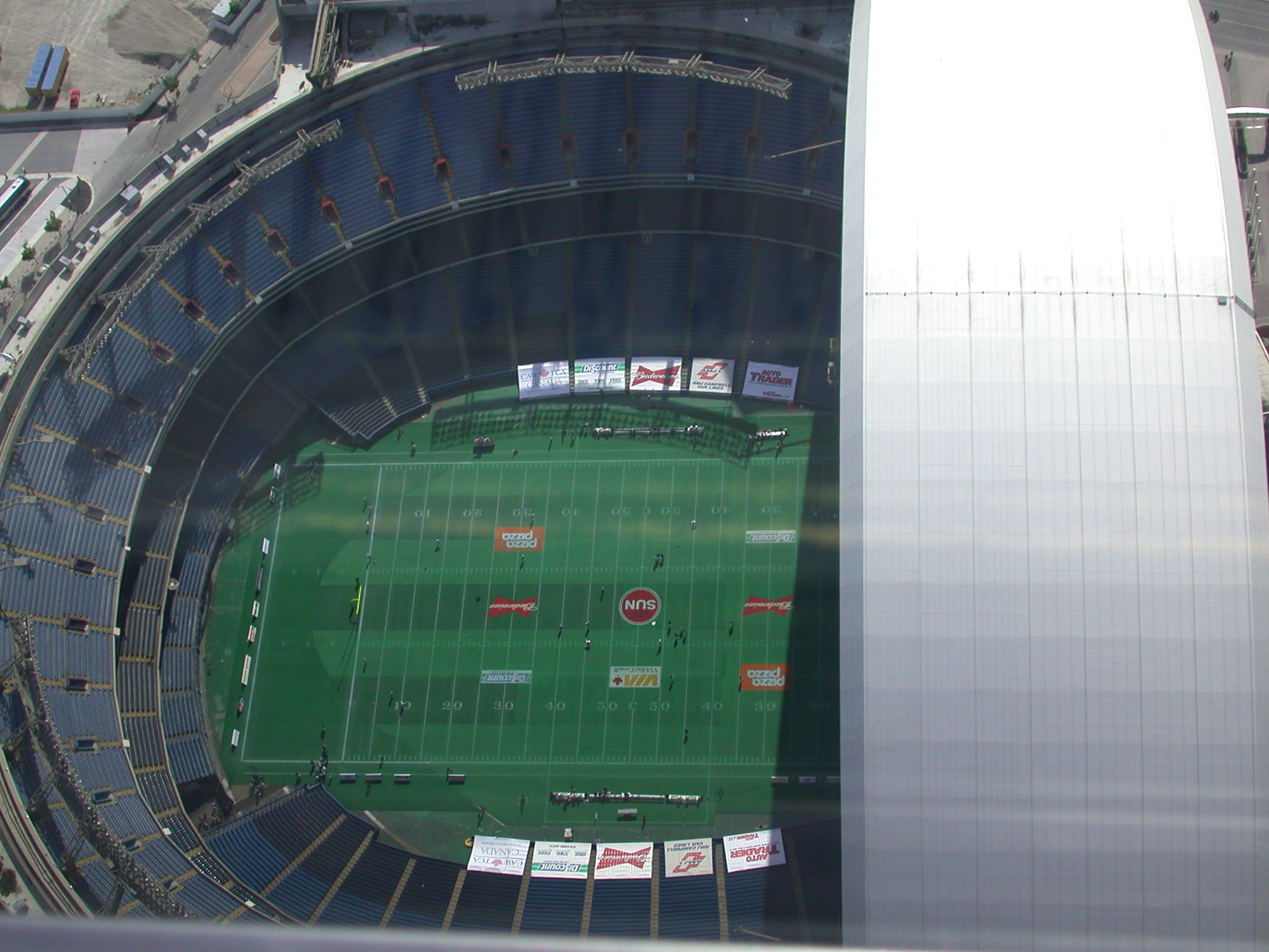 Rogers Centre (formerly Skydome), seen from CN Tower, Toronto, Canada.